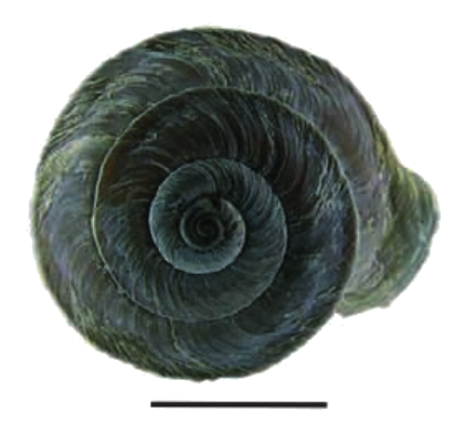 Photo of an apical view of a shell of Pseudiberus chentingensis, ZMIZ00163, specimen 1. The scale bar is 10 mm.